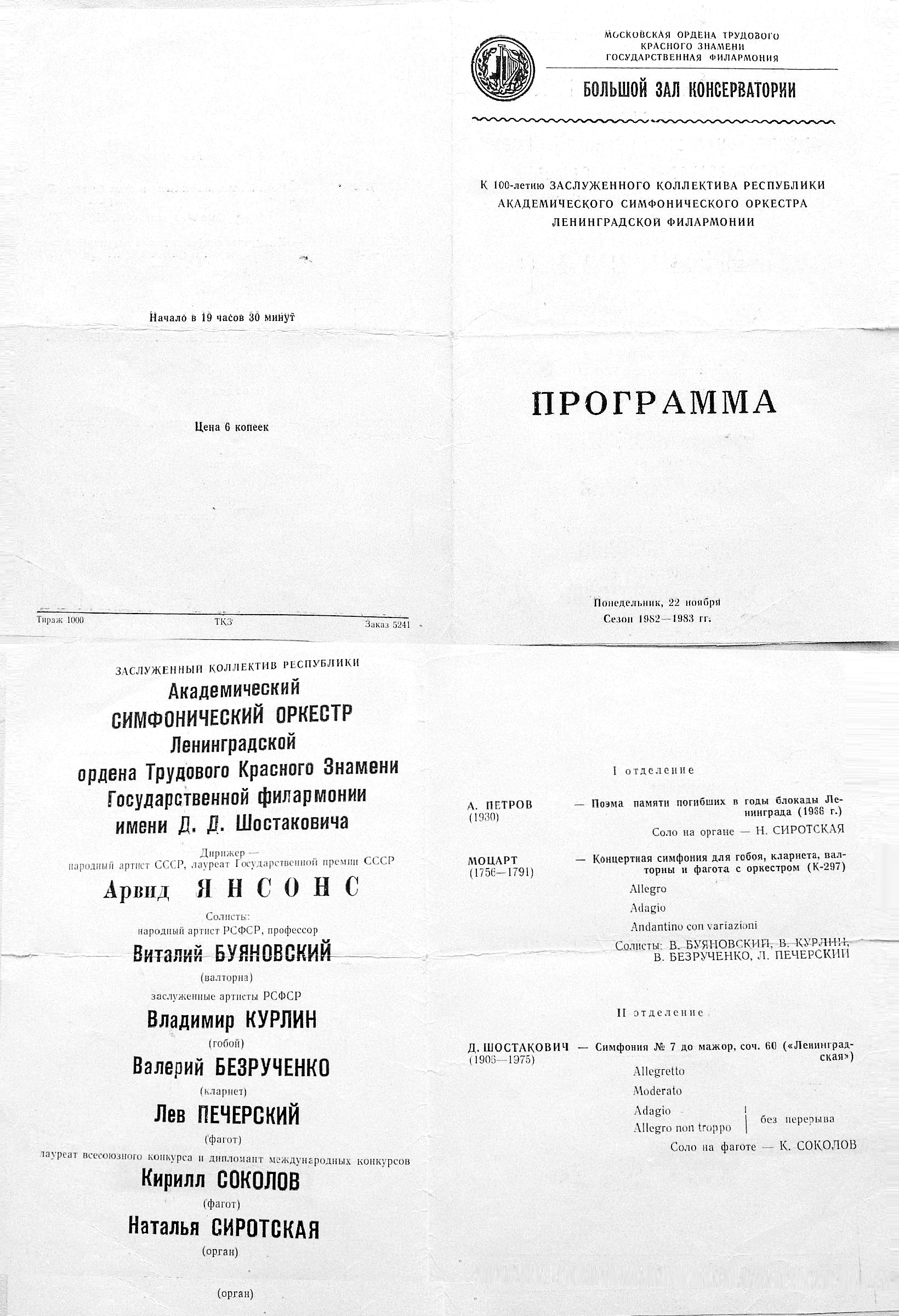 Москва, 1982, програмка концерта к 100-летию ЗКР АСО Ленинградской филармонии фаготист К.Б.Соколов